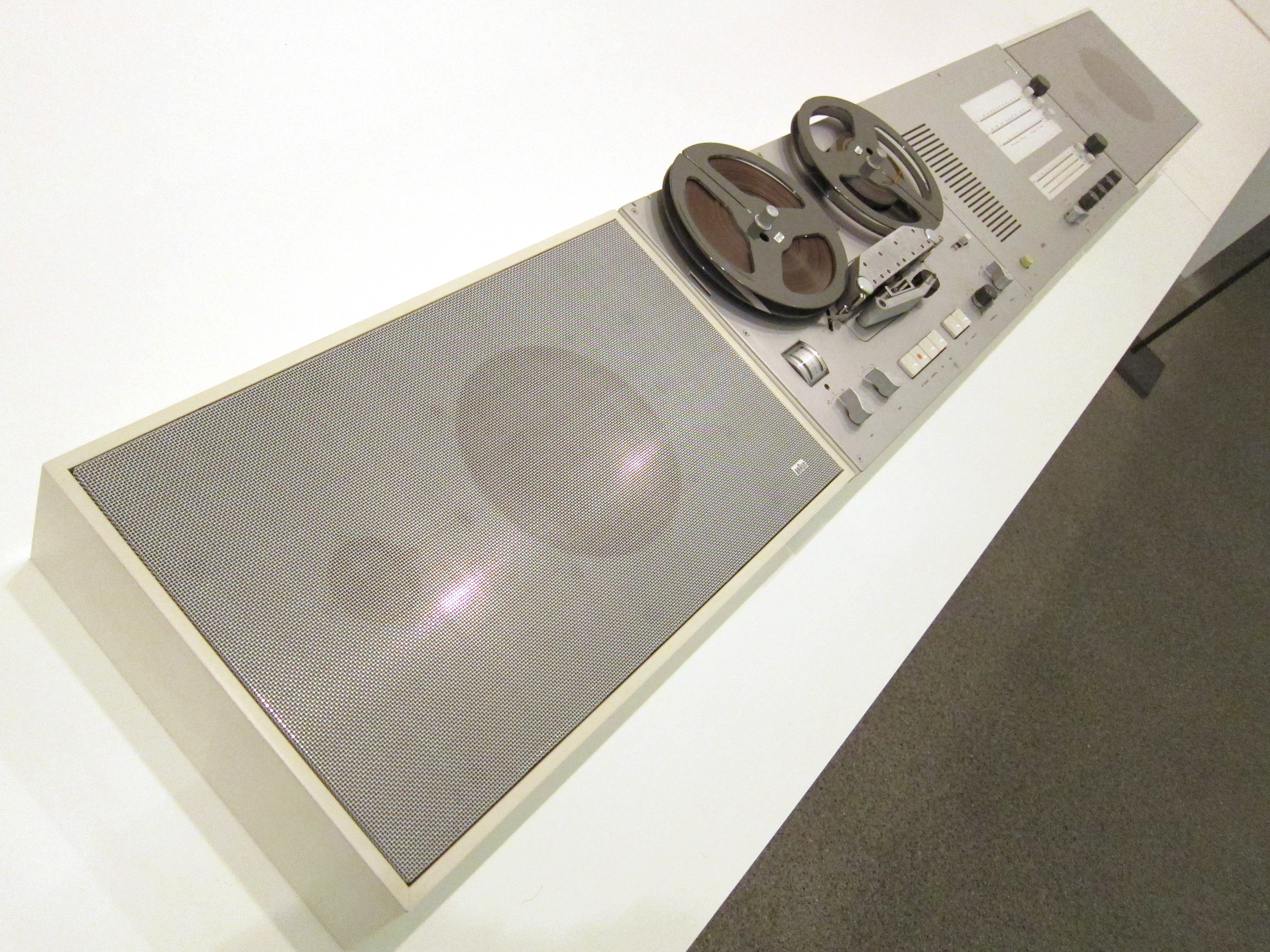 Pinakothek der Moderne collection.